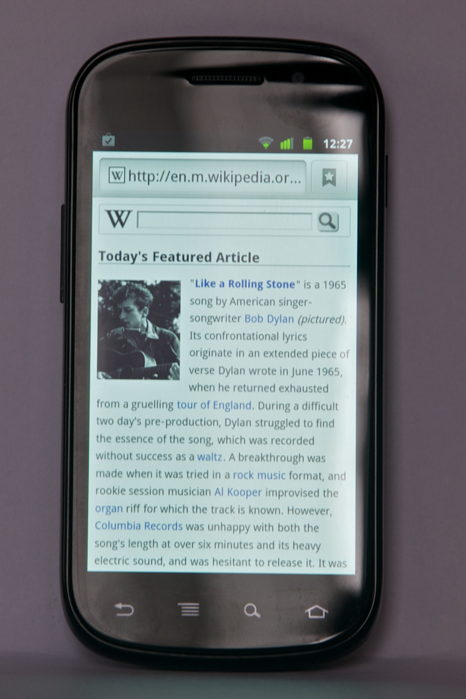 Main Page Mobile english wikipedia on Google Nexus S